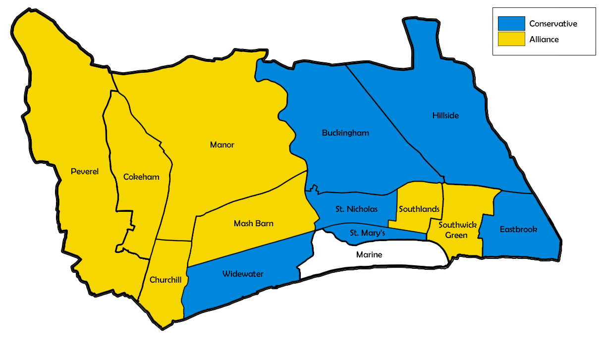 Ward map of Adur council with political colouring for the 1987 election.